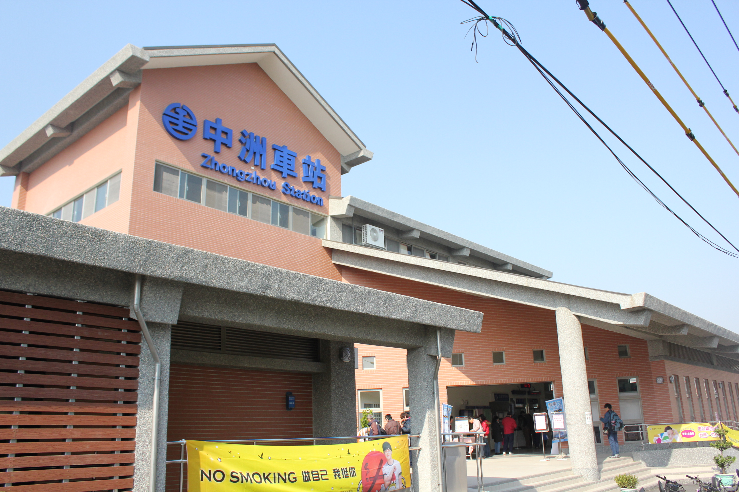 Zhongzhou station New bulit station hall